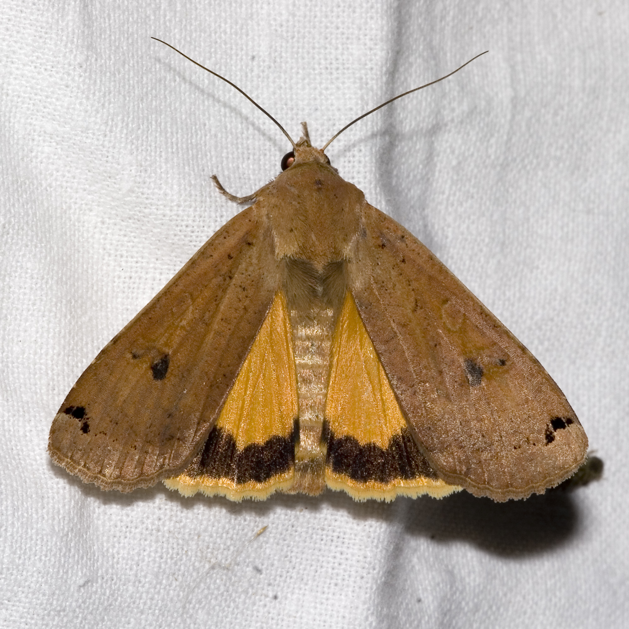 Large Yellow Underwing